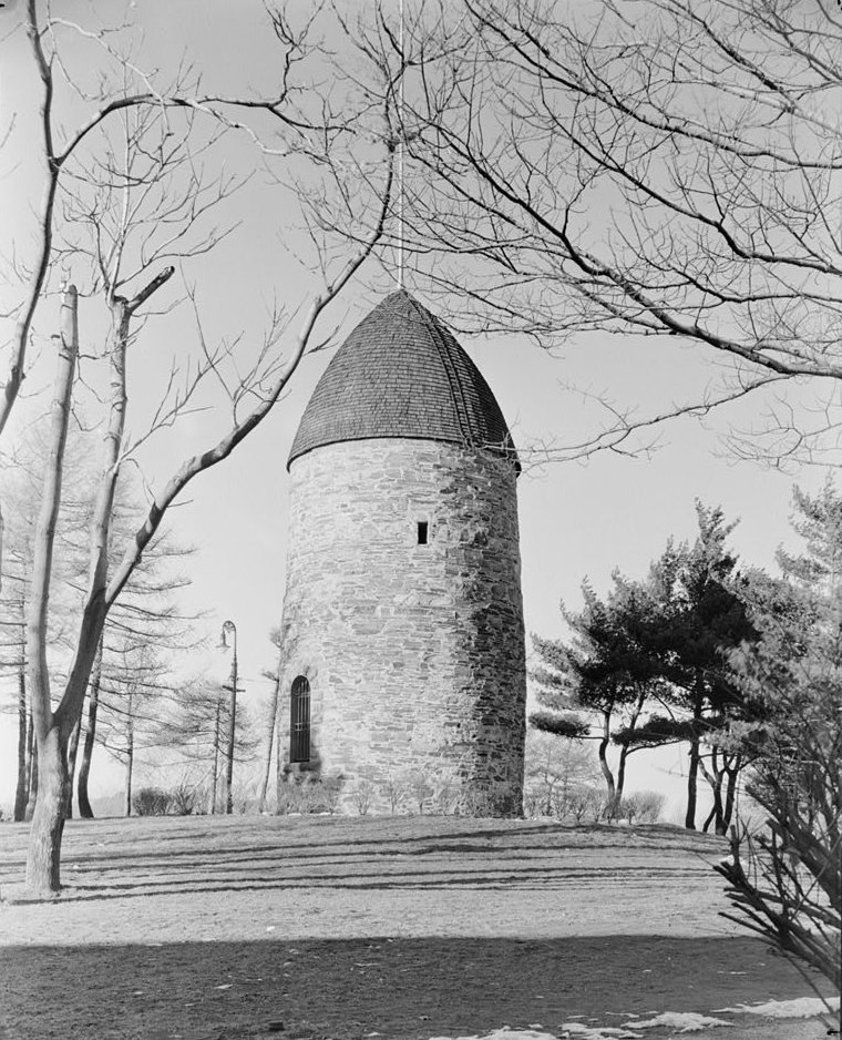 This is a 1935 photograph of the historic Powder House in Somerville, Massachusetts. The source image has been cropped to remove black borders.